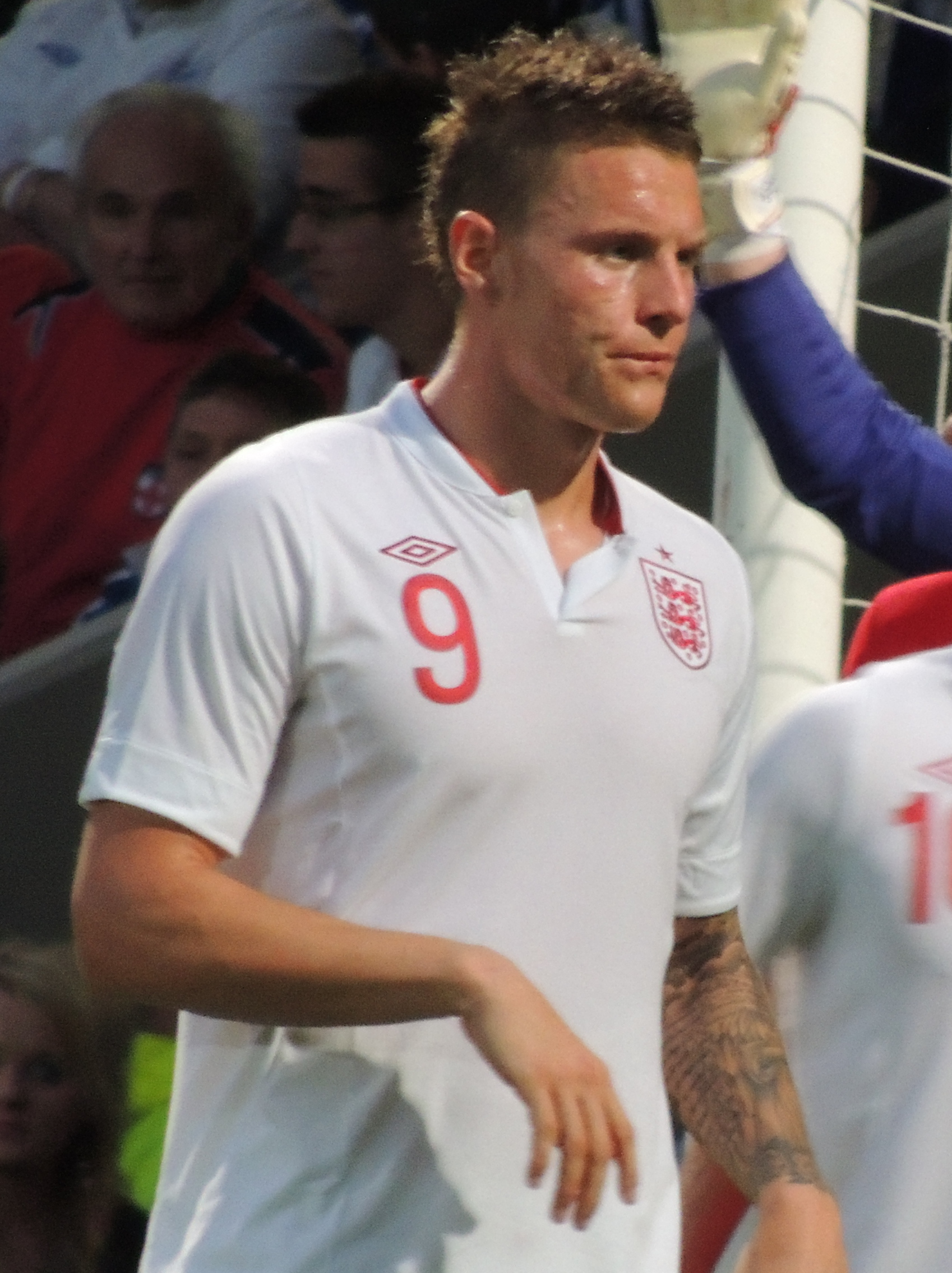 England U21 vs Norway 10-09-12 079